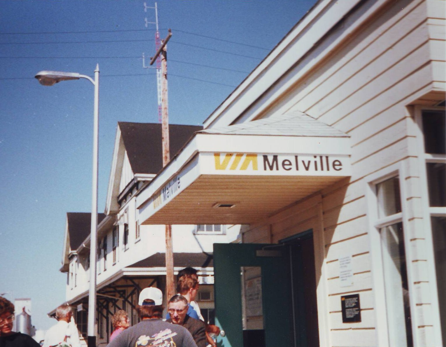 The VIA rail station in Melville, Saskatchewan, Canada during a stopover of the eastbound "Canadian" train on August 31, 1991.